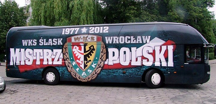 Neoplan Starliner N216 coach (reg. DW 4489S) in Wrocław, Poland. Śląsk Wrocław, Sportowa S.A. operator.